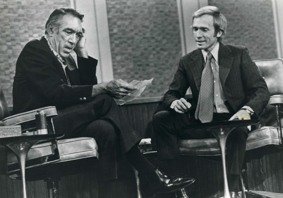 Photo of Anthony Quinn as the guest on The Dick Cavett Show.